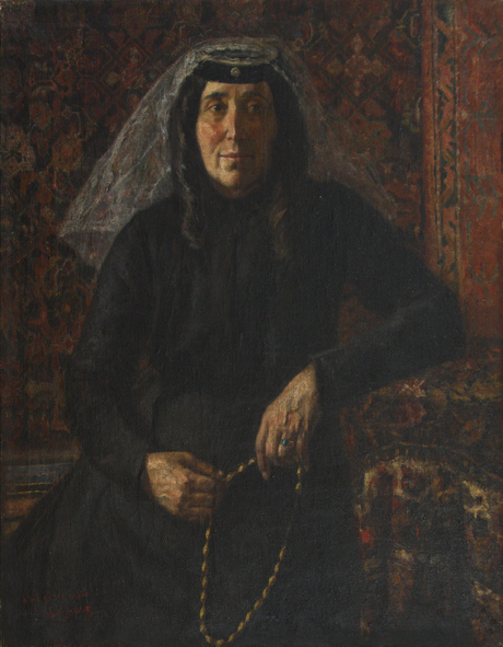 Portrait of Mother